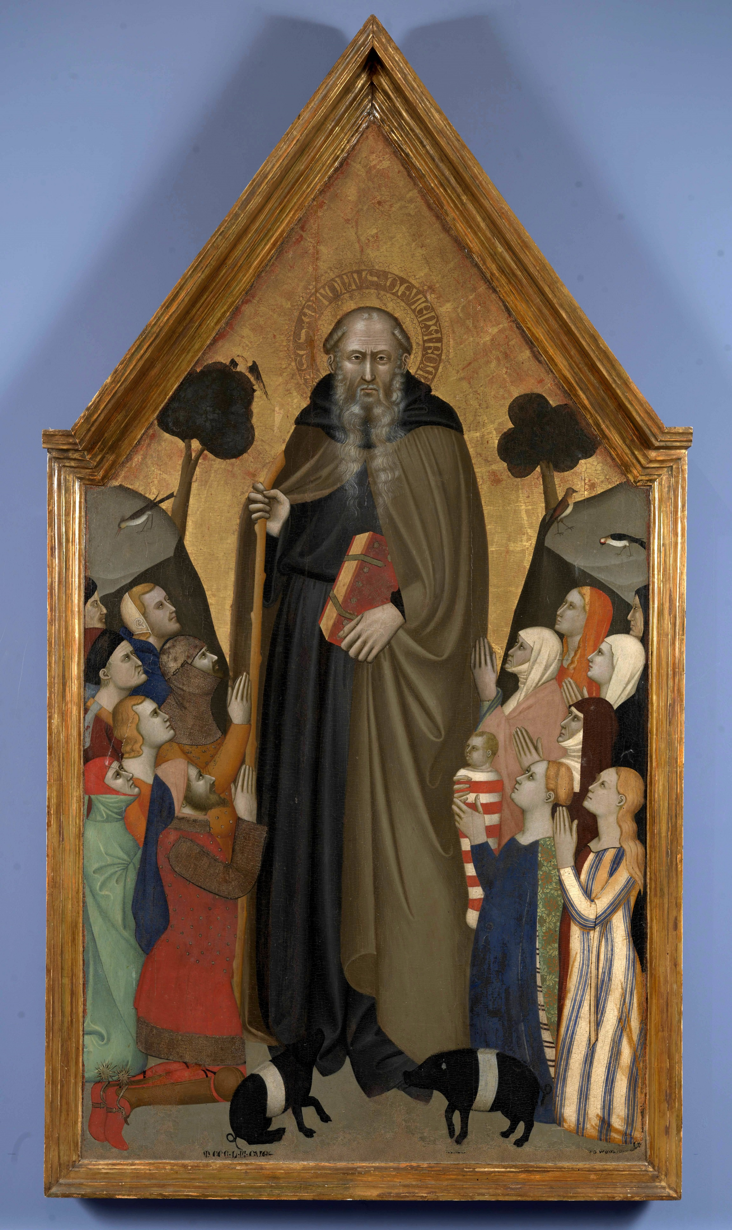 Puccio di Simone. Saint Anthony - abbot. 1353, Fabriano, Pinacoteca Civica